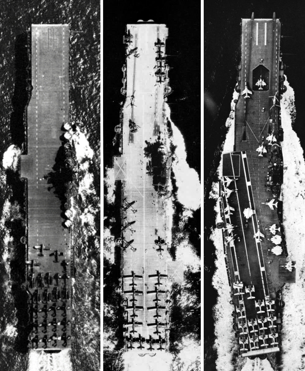 Three deck views of the U.S. Navy aircraft carrier USS Intrepid (CV-11) (l-r): 1. as built, in 1945; 2. after the SCB-27C modernization, which took place between April 1952 and June 1954 at Newport News Shipbuilding, Virginia (USA); 3. after the SCB-125 modernization from 29 September 1956 to April 1957 at the New York Naval Shipyard (USA).